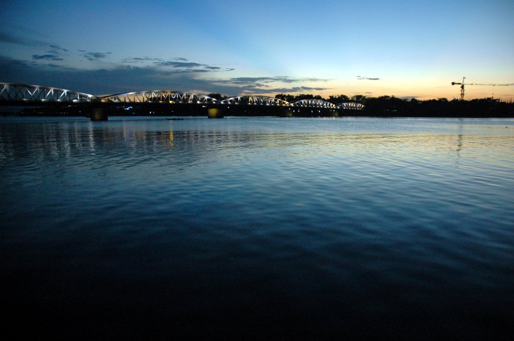 Sunset over the Huong River wih Truong Tien bridge, Hue, Vietnam.